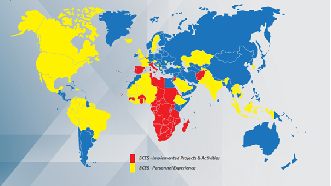 map of expertise ECES